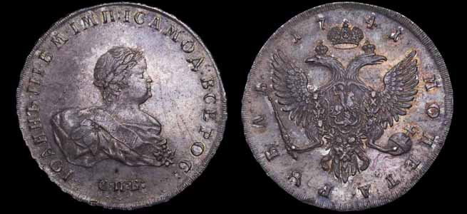 Rubl 1741